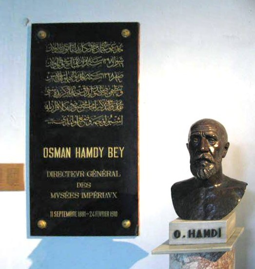 Bust and plaque of Osman Hamdi Bey, founder of the Istanbul Archaeology Museum in the museum.